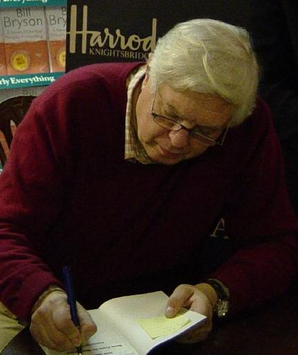 English journalist John Simpson